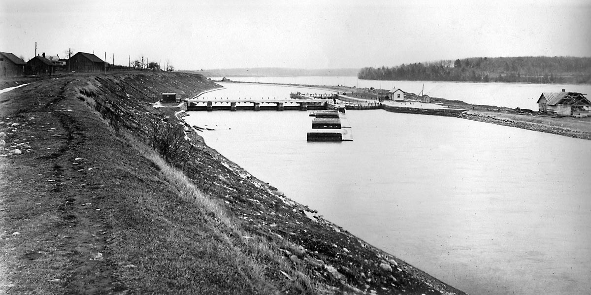 Original caption: "SHCC039: Lock 21 at Dickinson’s Landing. A view of Lock 21 shortly after completion. Circa 1904."